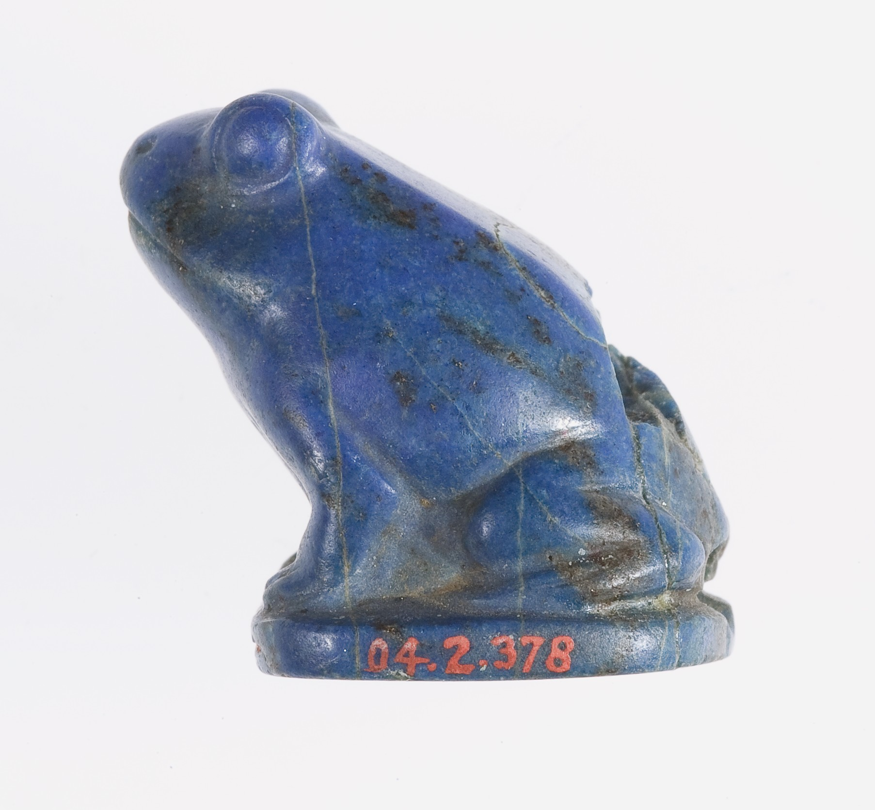 Amulet, frog